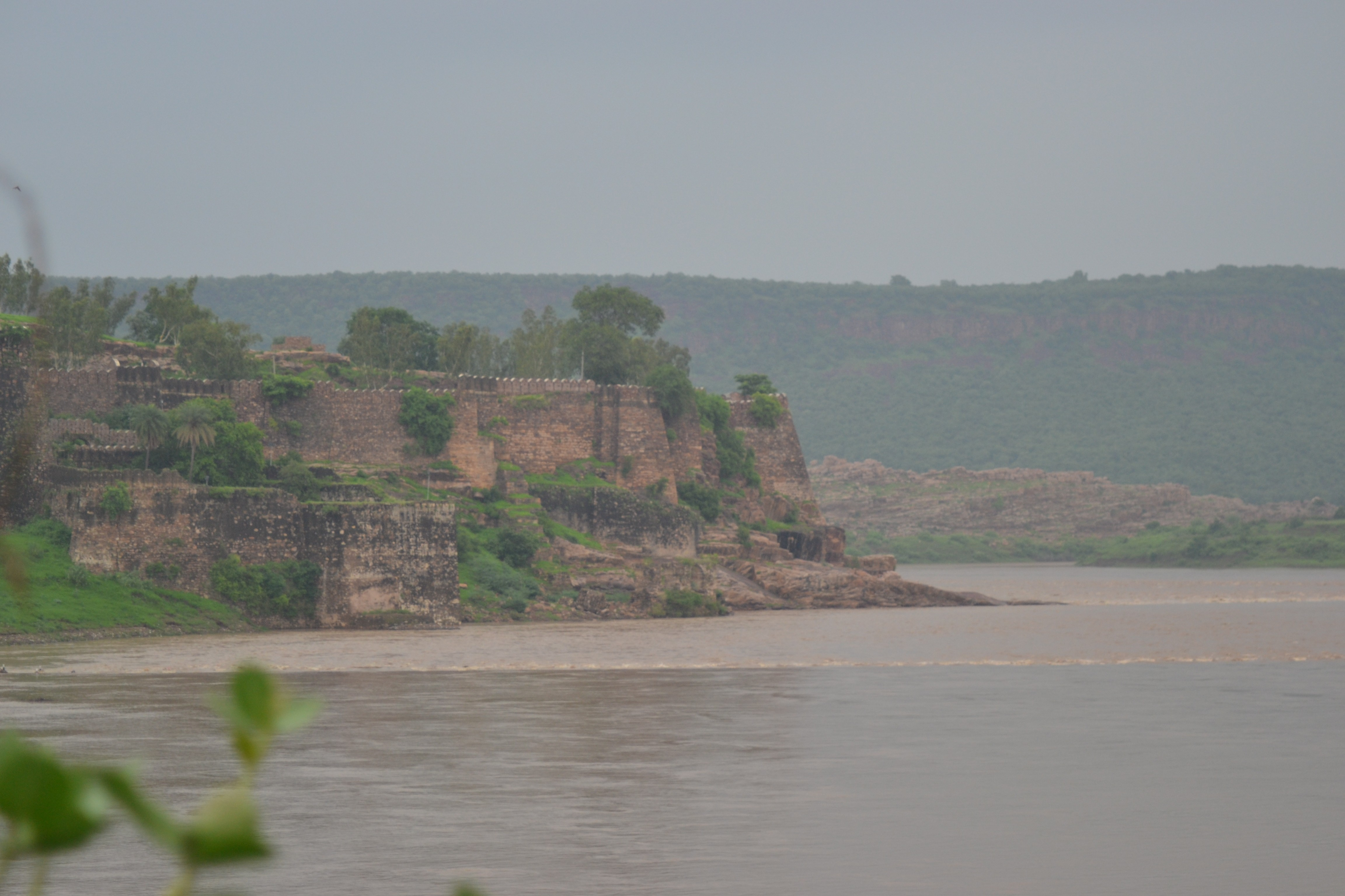 during rainy season fort gets submerged by overflowing river and the access to it gets blocked